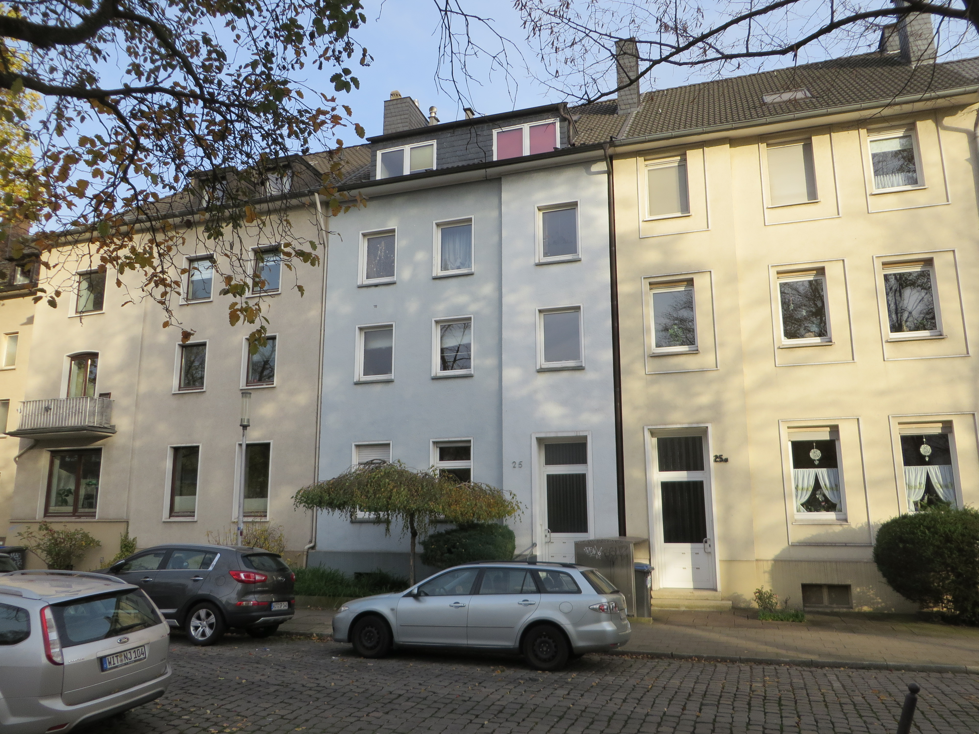 House Steinstraße 25 in Witten, Germany